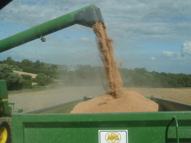 Harvest action near Glatton, Cambridgeshire, Great Britain. Wheat pouring from the unloading auger. Taking a photograph, driving forward, looking backwards, matching forward speed with combine and none spilt.